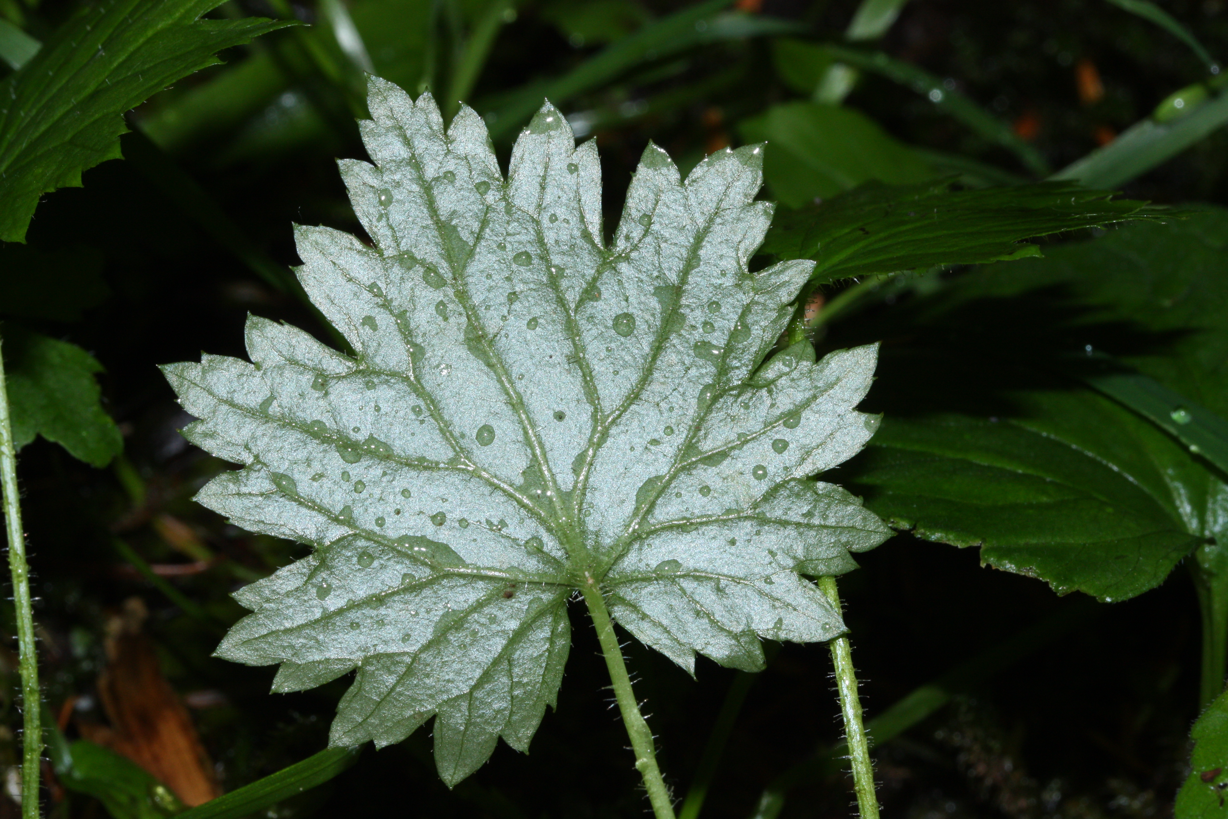 Coastal Brookfoam